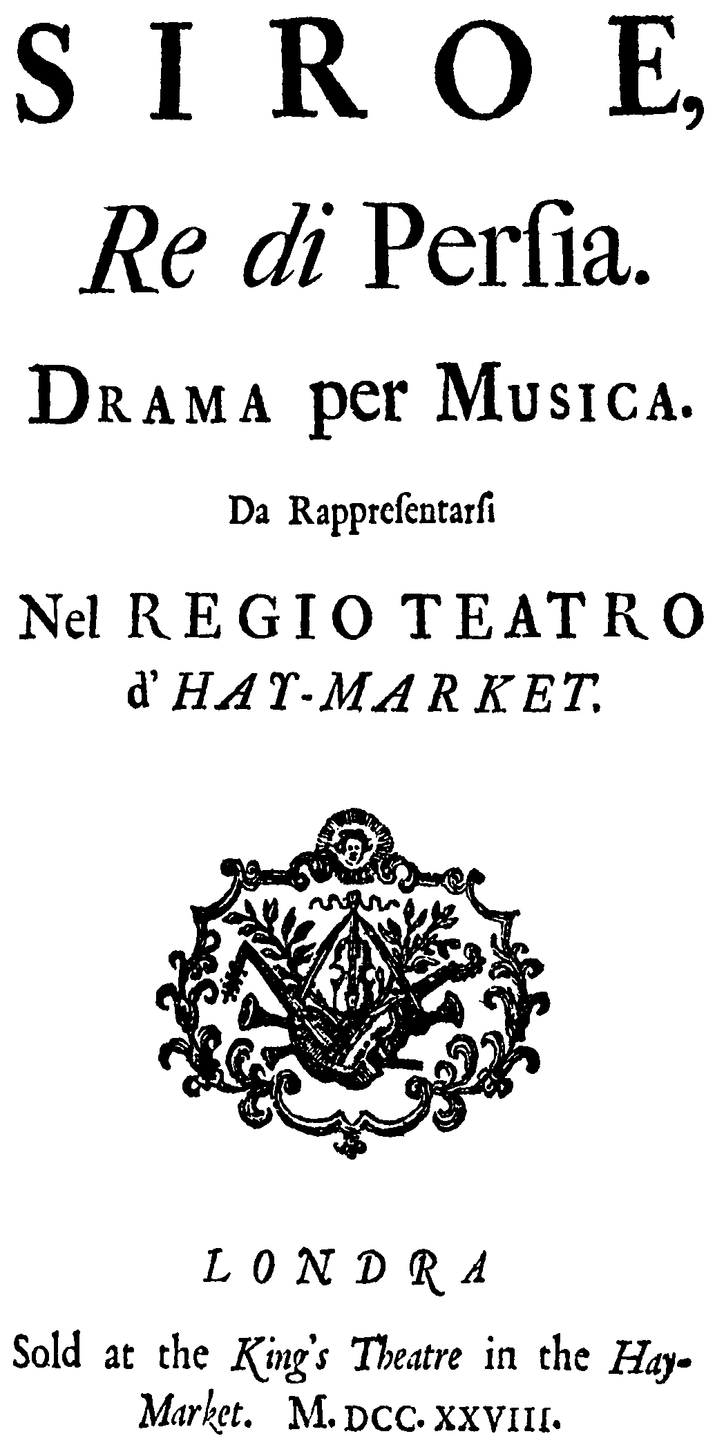 Georg Friedrich Händel - Siroe - title page of the libretto - London 1728